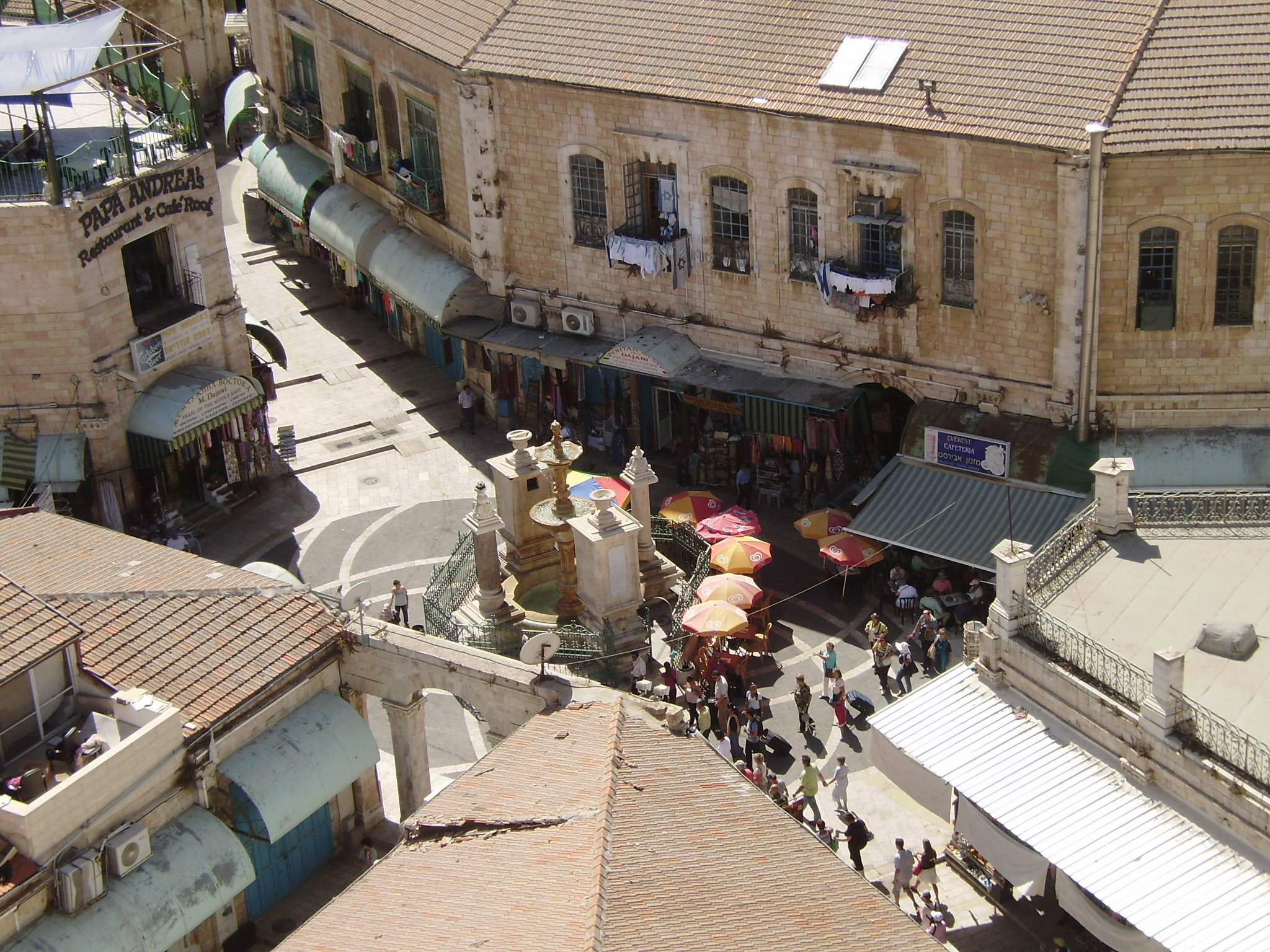 'Suq Aftimos' market, and the Muristan Fountain, located in the Christian quarter of the Old city, Jerusalem, Israel. Photo taken from the 'Church of the Redeemer'